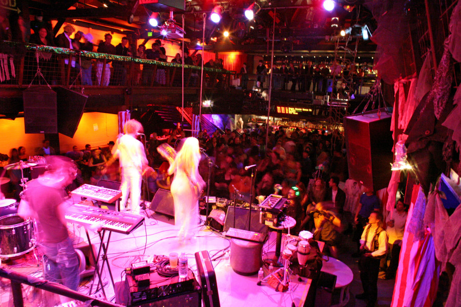 Photograph of San Francisco band Luxxury performing live at the Bohemian Carnival event at DNA Lounge on March 17, 2007.